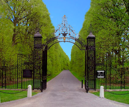 Gate to Old Westbury Gardens, Old Westbury, NY 11568